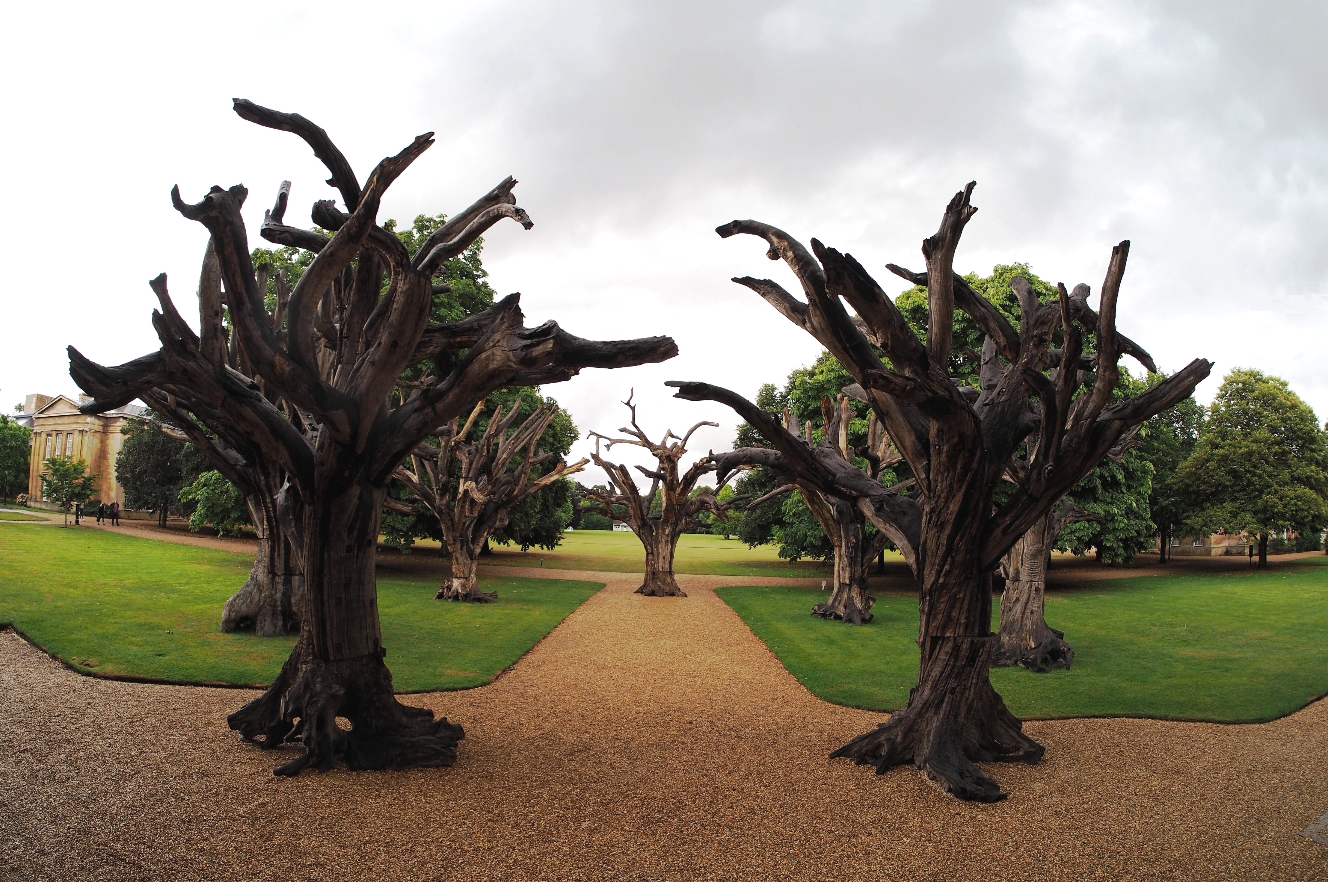 Sculpture by Ai Weiwei: "Trees". Sculpture created 2010. Installed in Downing College, Cambridge, 2016.